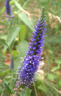 Spiked Speedwell, (Pseudolysimachion spicatum), Brno Komín,Czech republic, Europe